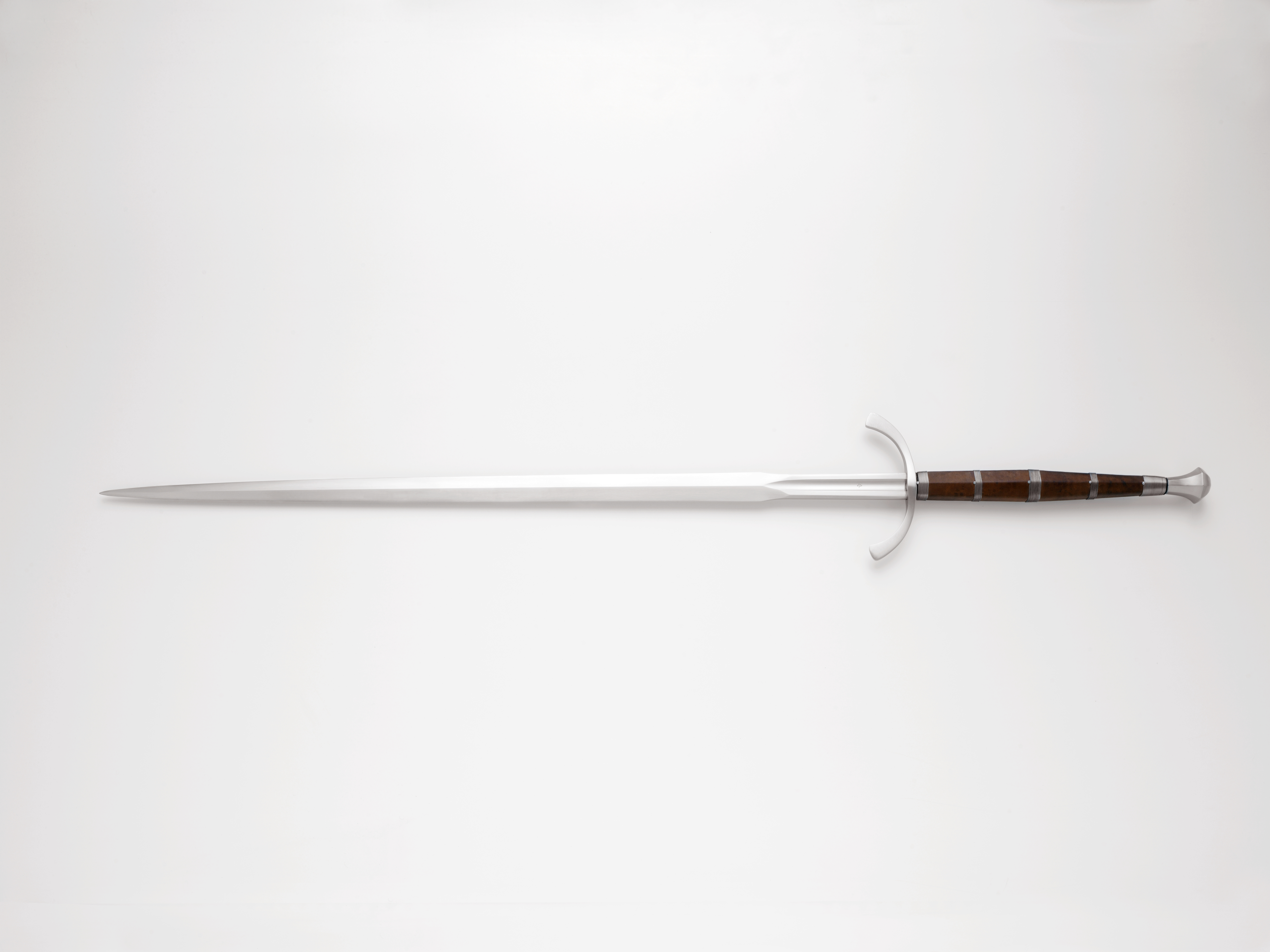 The Dane Limited Edition Scandinavian Two-handed Sword